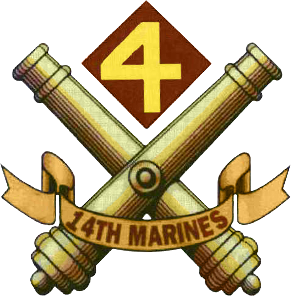 Converted to PNG 04:46, 25 March 2008 (UTC)